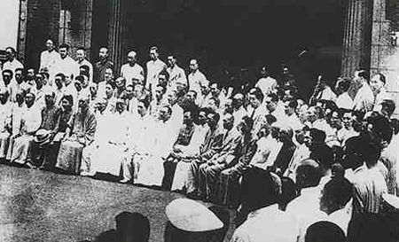 This is 1938, more that 70 years ago!